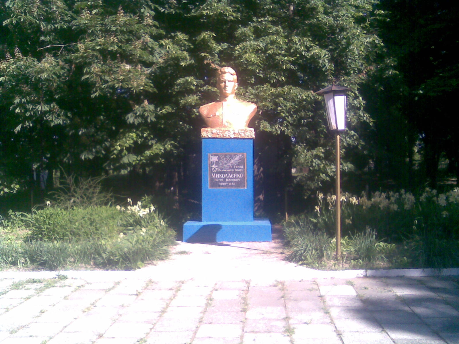 Меморіал Миколаєнку Петру Івановичу